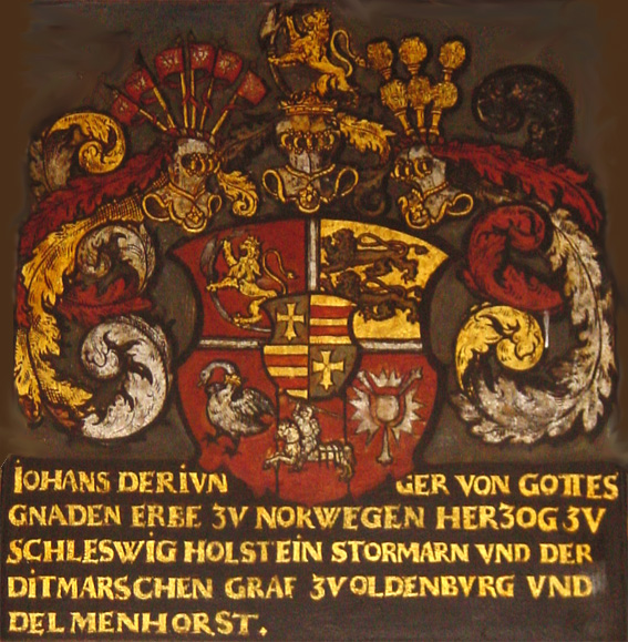 Coat of arms of Johann der Junge, Duke of Sønderborg 1580, from the chapel of Sønderborg Castle, Denmark.